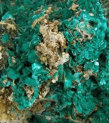 Chalcophyllite Locality: Carharrack, Gwennap area, Camborne - Redruth - St Day District, Cornwall, England, UK (Locality at ) Size: 5.4 x 4.4 x 4.0 cm. Lustrous, emerald-green to turquoise-blue chalcophyllite plates richly cover the vuggy, quartz-rich matrix on this fine, old-time specimen from the famous mines of Cornwall, England. A portion of the vug is lined with dark green olivenite microcrystals. Classic material from this renowned locale. Ex. Jean Behier Collection, a well-known French exploration geologist and collector of the mid-1900s. Certainly this would have been most likely to come out in the heyday of the mines here, and is likely over 100 years old, but no proof. In any case, it's an excellent example similar to the historic material from here you see in old books.